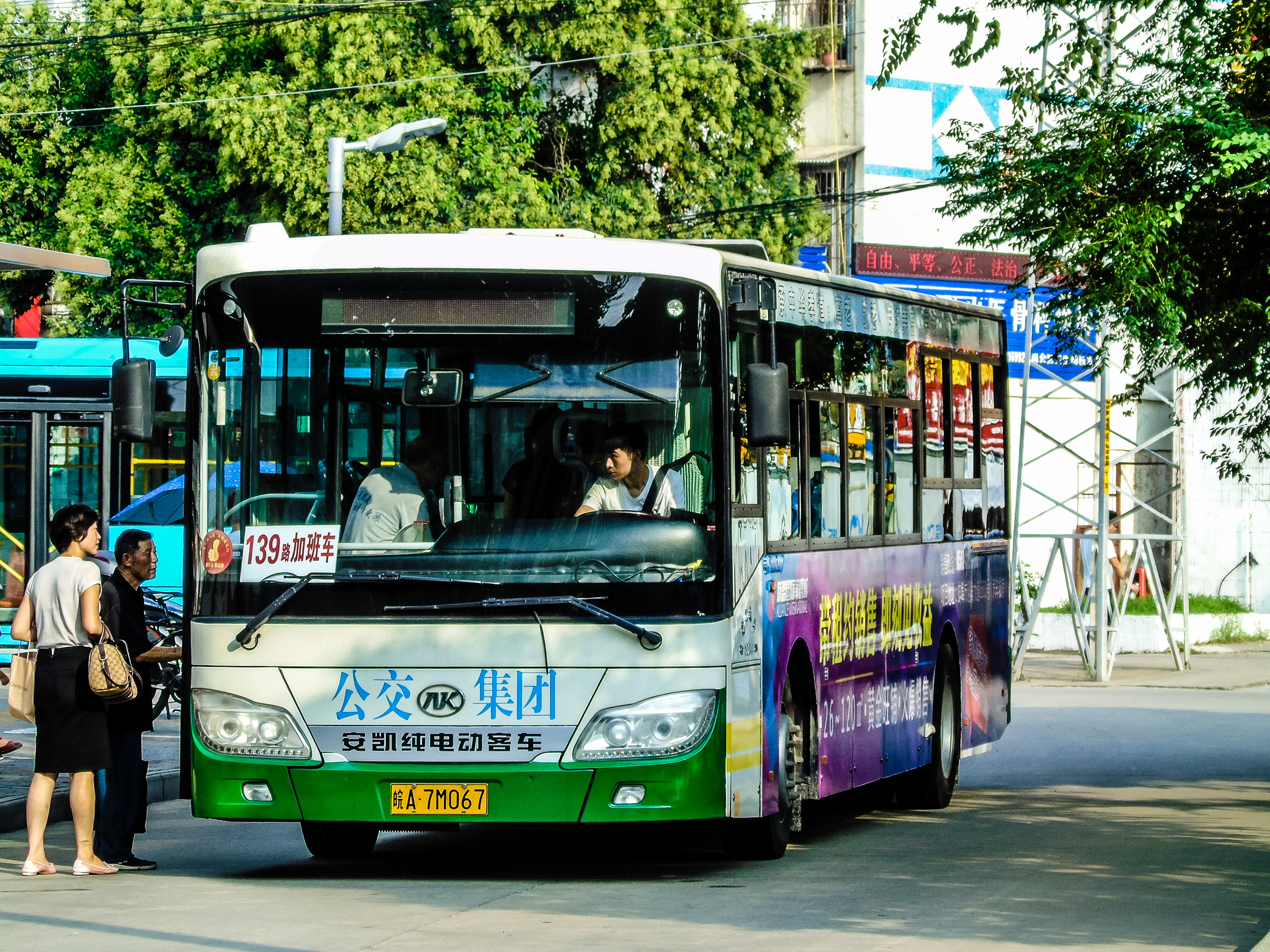 Bengbu Bus No.139 N1